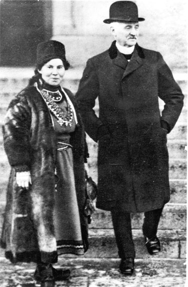 Sami activist Karin Stenberg and Swedish politician Carl Lindhagen, probably 1919.